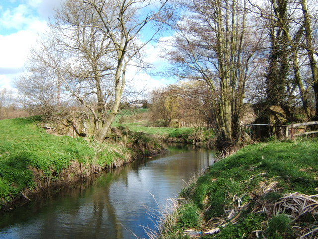 Bridge Out! This picture shows what is left of a bridge on the Colne Valley railway. The railway embankment to the right as far as White Colne was a nature reserve managed by Essex wildlife Trust however management has now passed back to the local authority. The photo was taken looking upstream.